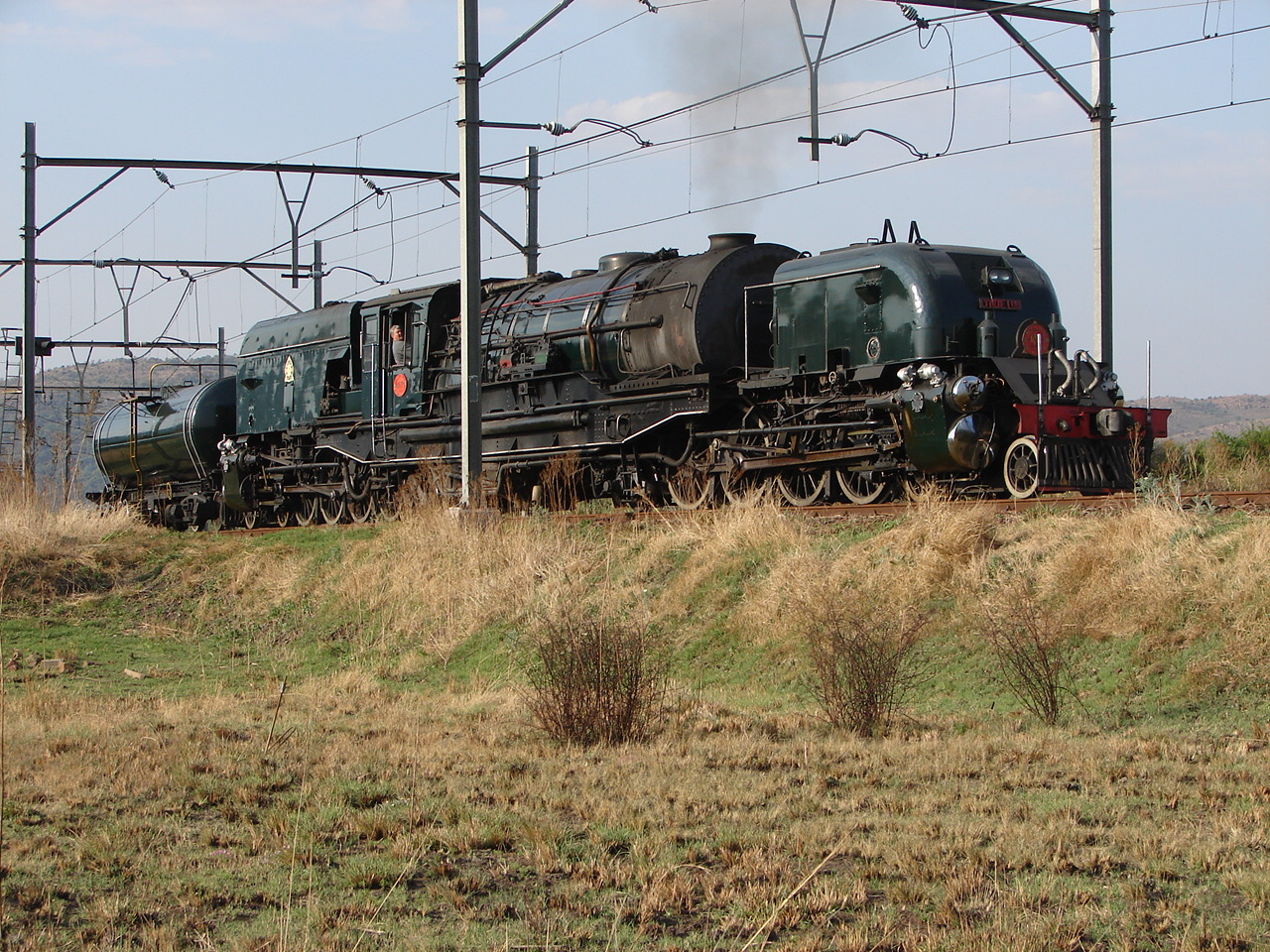 Class GMAM 4079 (4-8-2+2-8-4)Builder's works number: BP 7677/1954Location: Capital Park, Pretoria